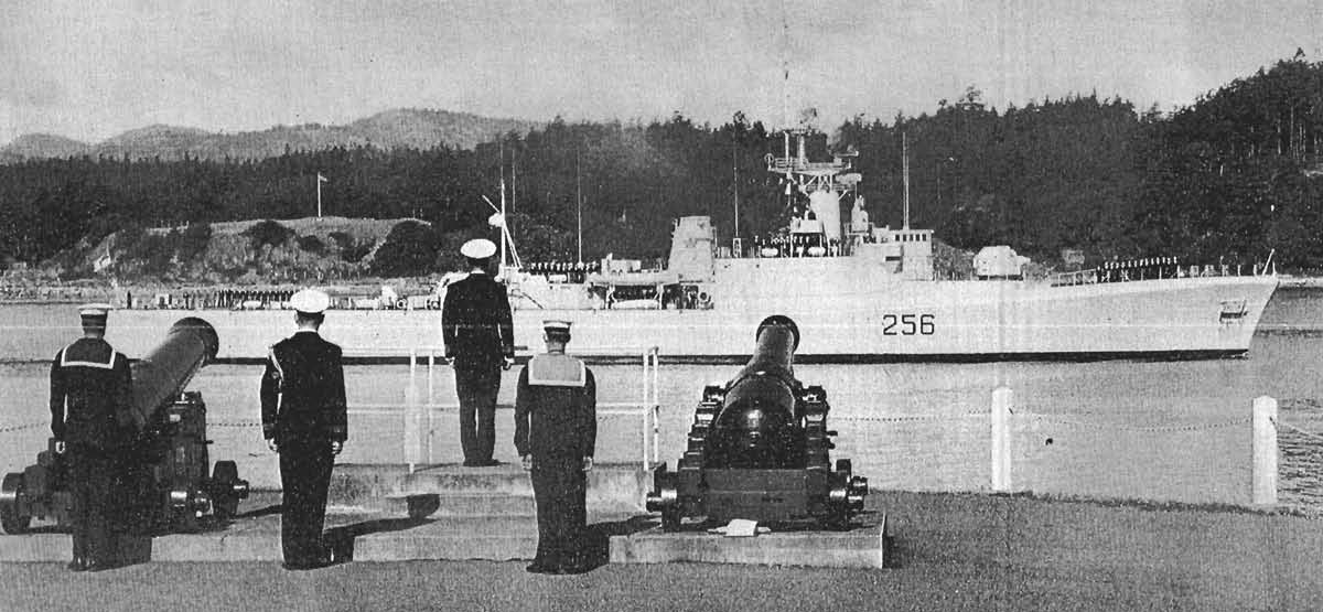 The HMCS St. Croix (DDE 256) arriving at CFB Esquimalt in August 1964. Original caption: "The latest addition to the Pacific Command is HMCS St. Croix, which arrived in Esquimalt August 28. She is manned by a ship's company that left Victoria Jan. 7 in HMCS St. Laurent for Commonwealth naval exercises in the Indian Ocean, and then steamed around the world for Halifax. HMCS St. Croix is commanded by Cdr. John Hertzberg."